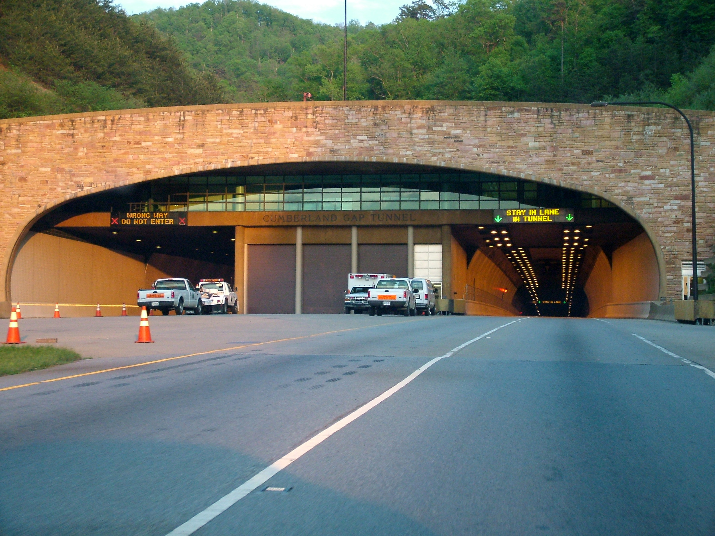 Photo of the Cumberland Gap Tunnel from the Kentucky side.